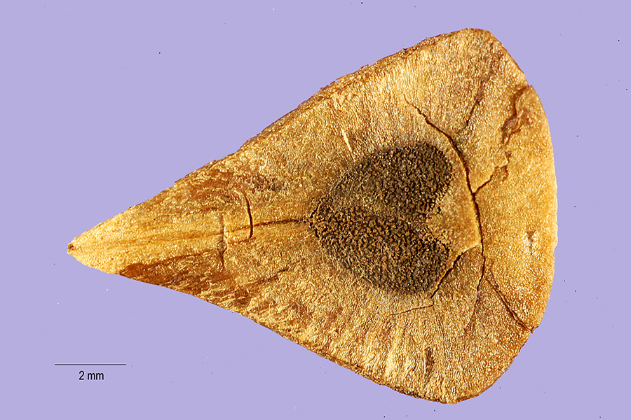 Seed of Aristolochia odoratissima